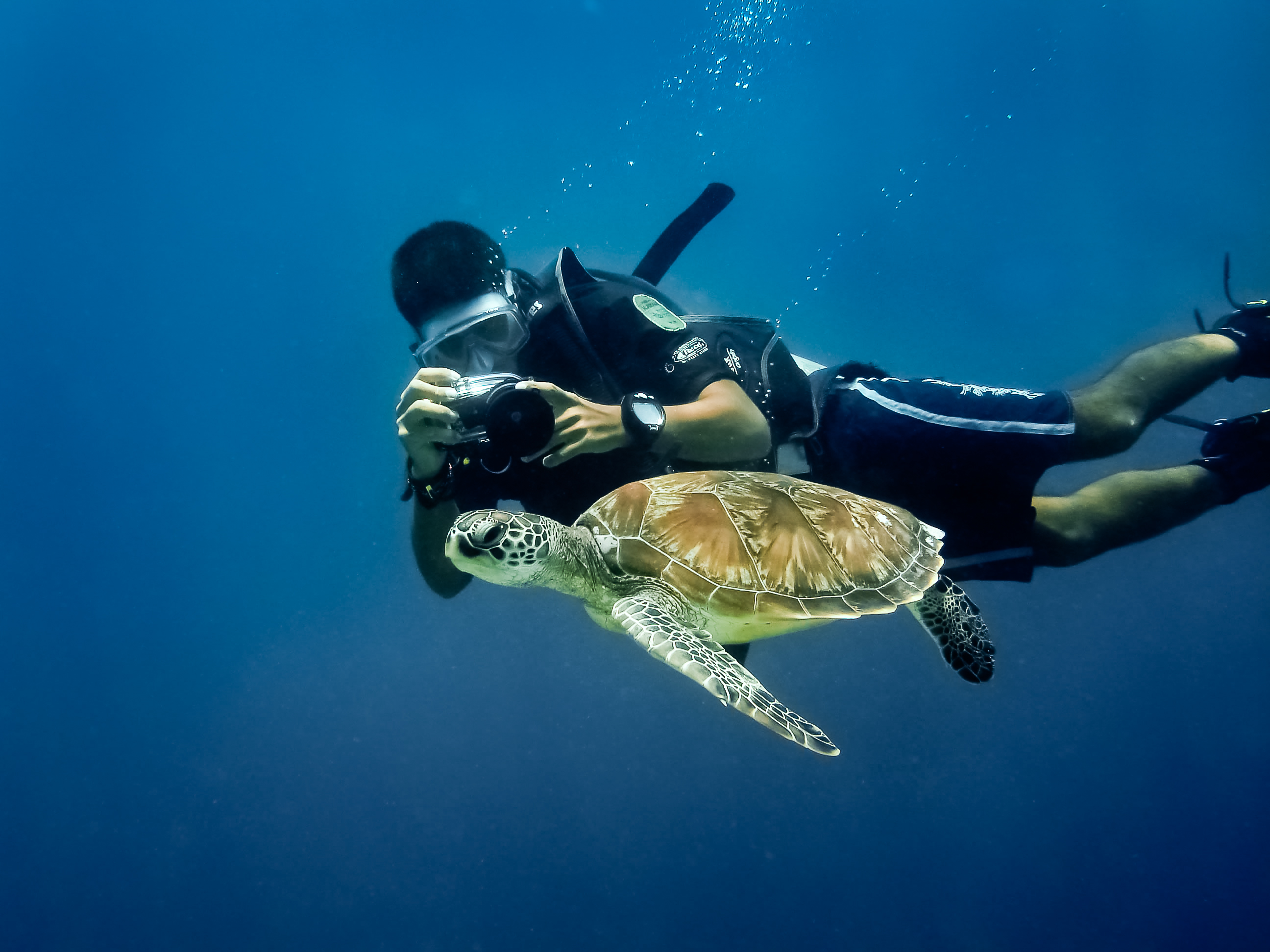 Scuba dive master Che photographing turtle, Sipadan, Borneo, Malaysia